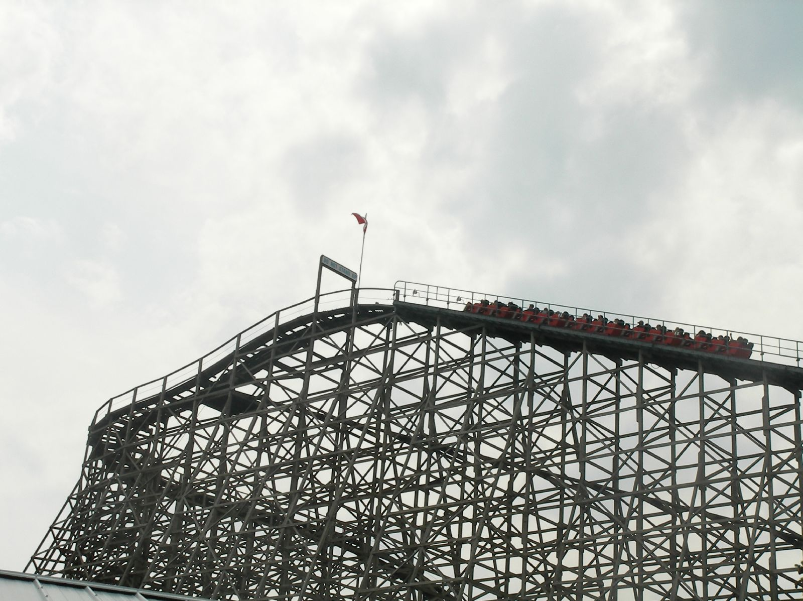 The Mighty Canadian Minebuster at Canada's Wonderland on July 17, 2007